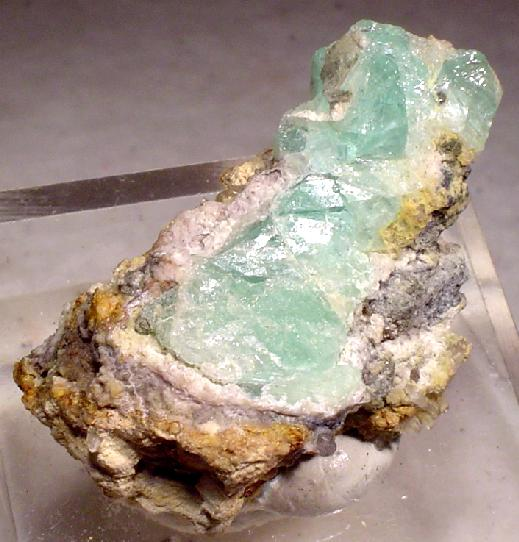 Phosphophyllite Locality: Cerro de Potosí (Cerro Rico), Potosí City, Potosí Department, Bolivia (Locality at ) Partial crystals , with small gemmy areas. 3.0 x 1.9 x 1.6 cm